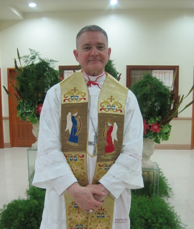 Photograph of His Excellency Archbishop Edward Joseph Adams, while serving as Apostolic Nuncio to the Philippines. Photo was taken during his pastoral visit to the Archdiocese of Zamboanga.